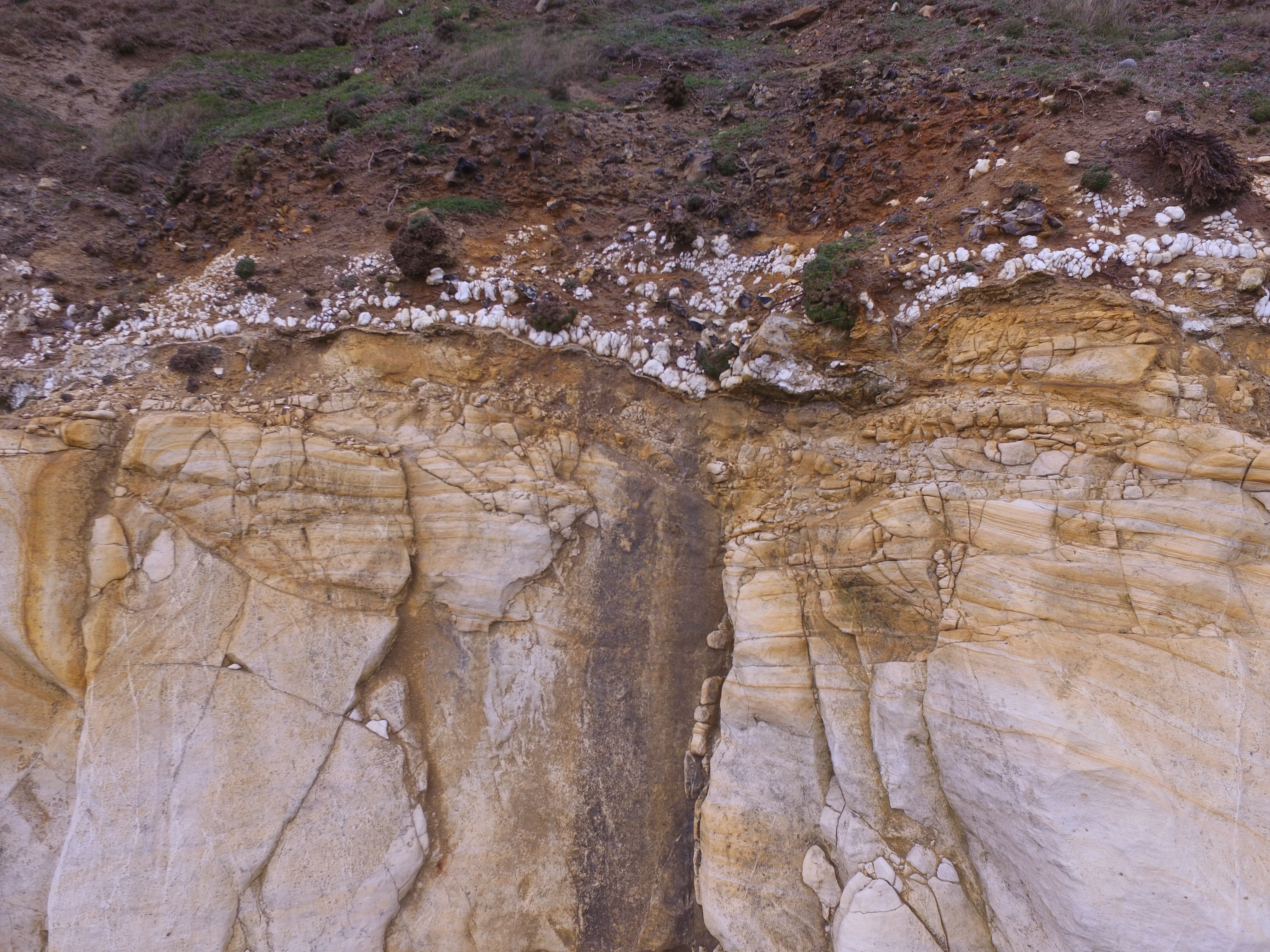 Aluminite outcrop at Newhaven. This picture was taken with a camera drone and shows the outcrop of aluminite at the top of the white chalk of the cliff. The outcrop is located on the beach to the west side of the river about 200m from the most western part of the car park.